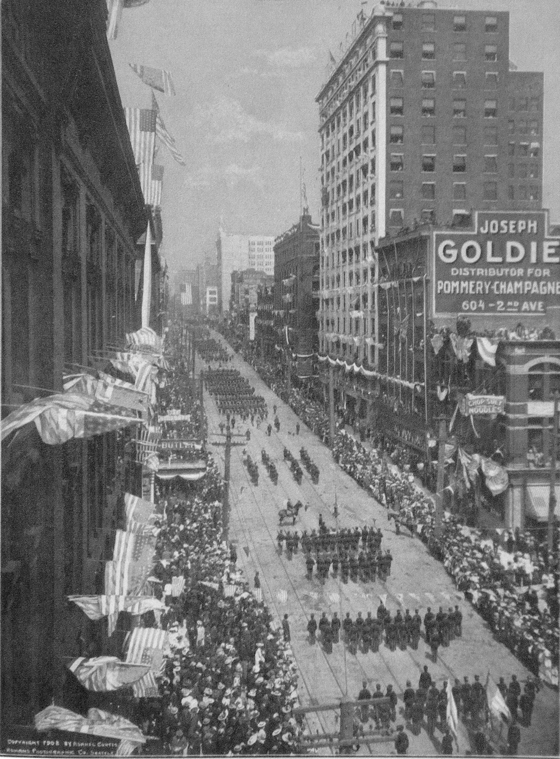 Parade greeting the Atlantic Squadron during its 1908 visit to Seattle. The building in extreme perspective at near left is the Seattle Hotel (a.k.a. Hotel Seattle), demolished in the 1960s. The next building on the left is the Butler Hotel (its sign can be seen), the lower two stories of which survive. The first building on the right is gone, replaced in 1929 by the Hartford Building. The Corona Building and the Alaska Building (second and third from right) are still standing. The district has been successively enlarged, and hence has multiple NRHP IDs: 70000086, 78000341, and 88000739